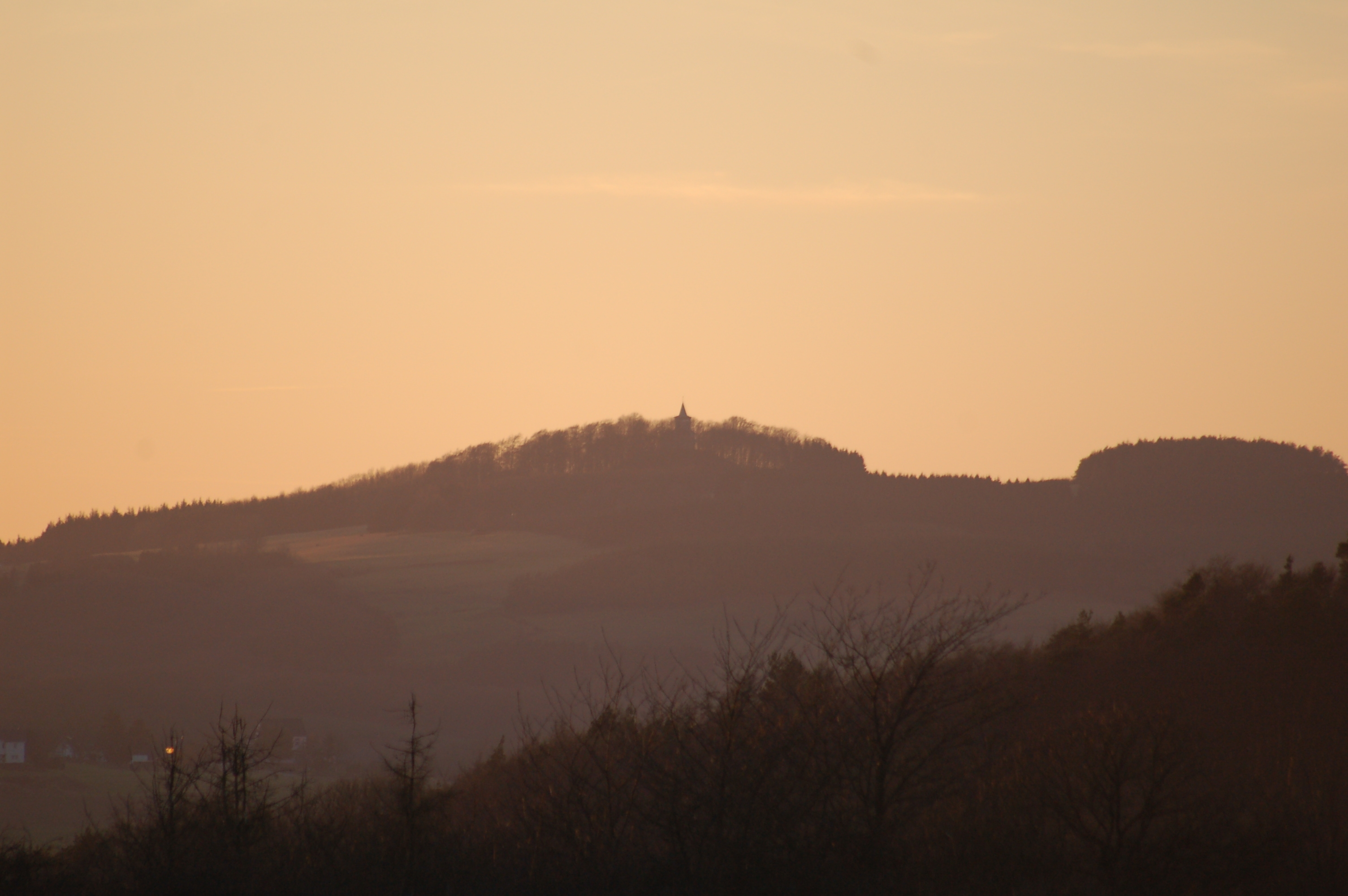 The Michelsberg and St. Michael's Chapel at dusk, photographed from the Hochthürmerberg in Germany's Eifel region